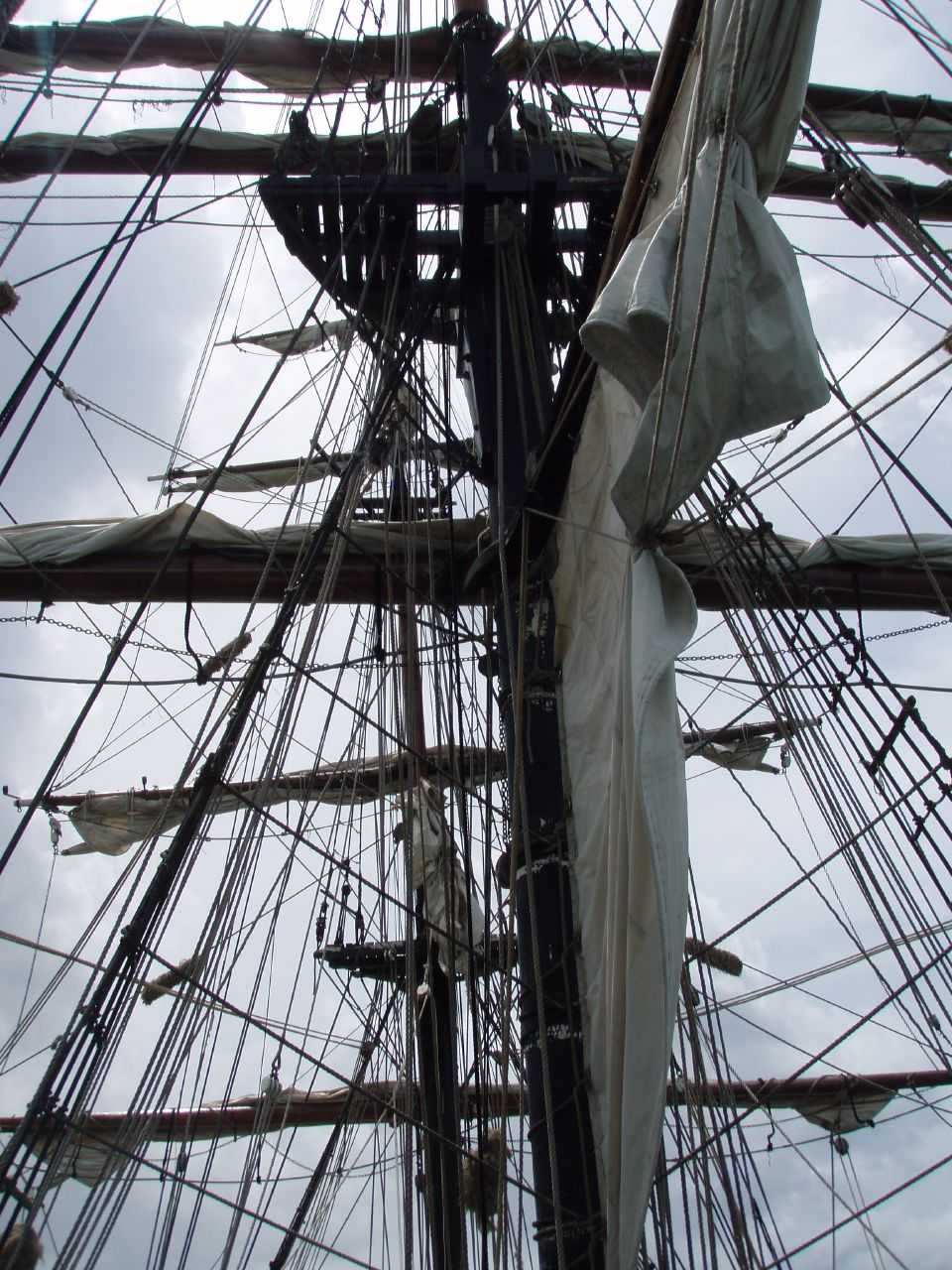 Brig Unicorn